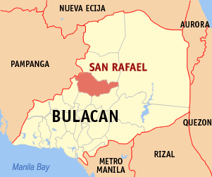 Map of Bulacan showing the location of San Rafael